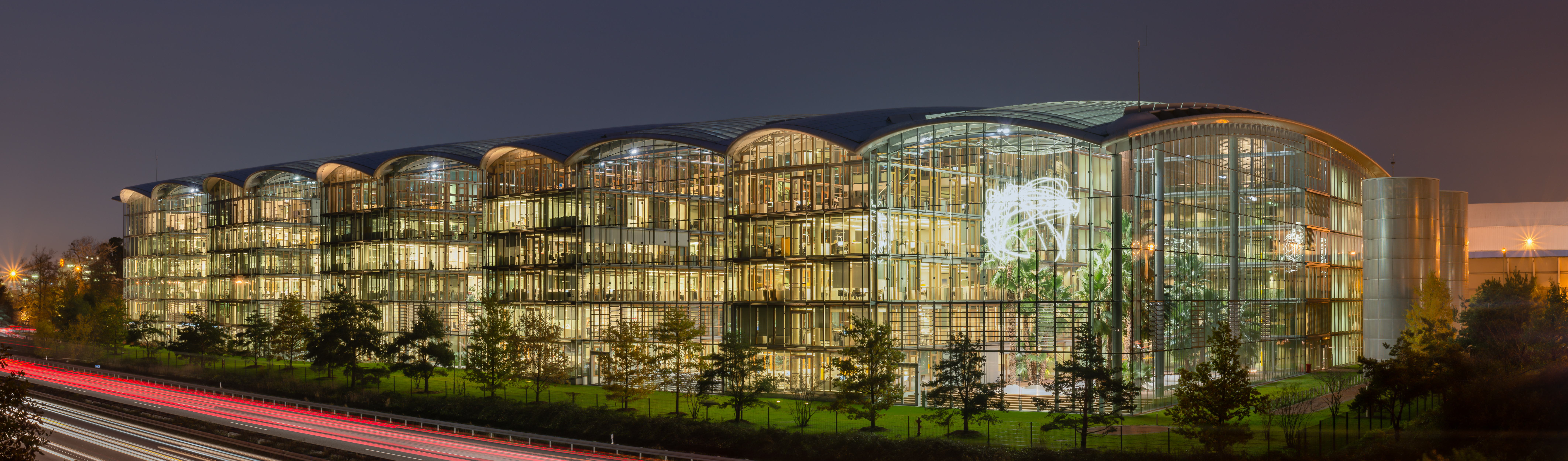 Lufthansa Aviation Center near the Frankfurt airport, Hesse, Germany.